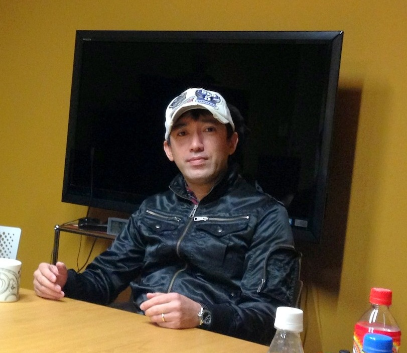 Shinji Mikami, director of the original Resident Evil